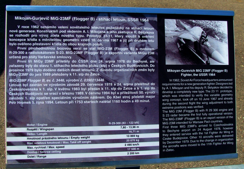 Mig-23 plate as example of the information about aircraft in Kbely museum